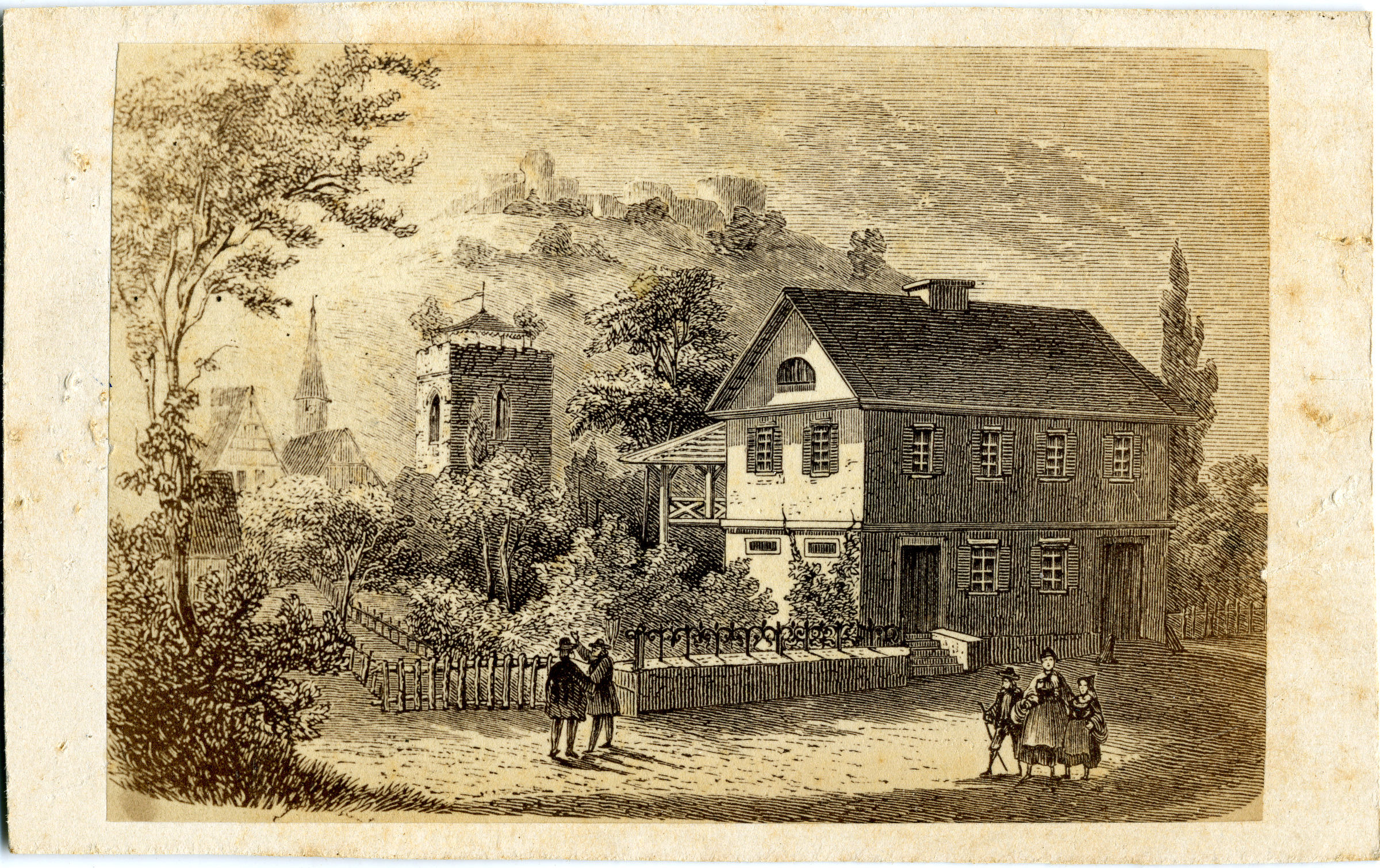 19th century photograph of an engraving showing the Kernerhaus in Weinsberg